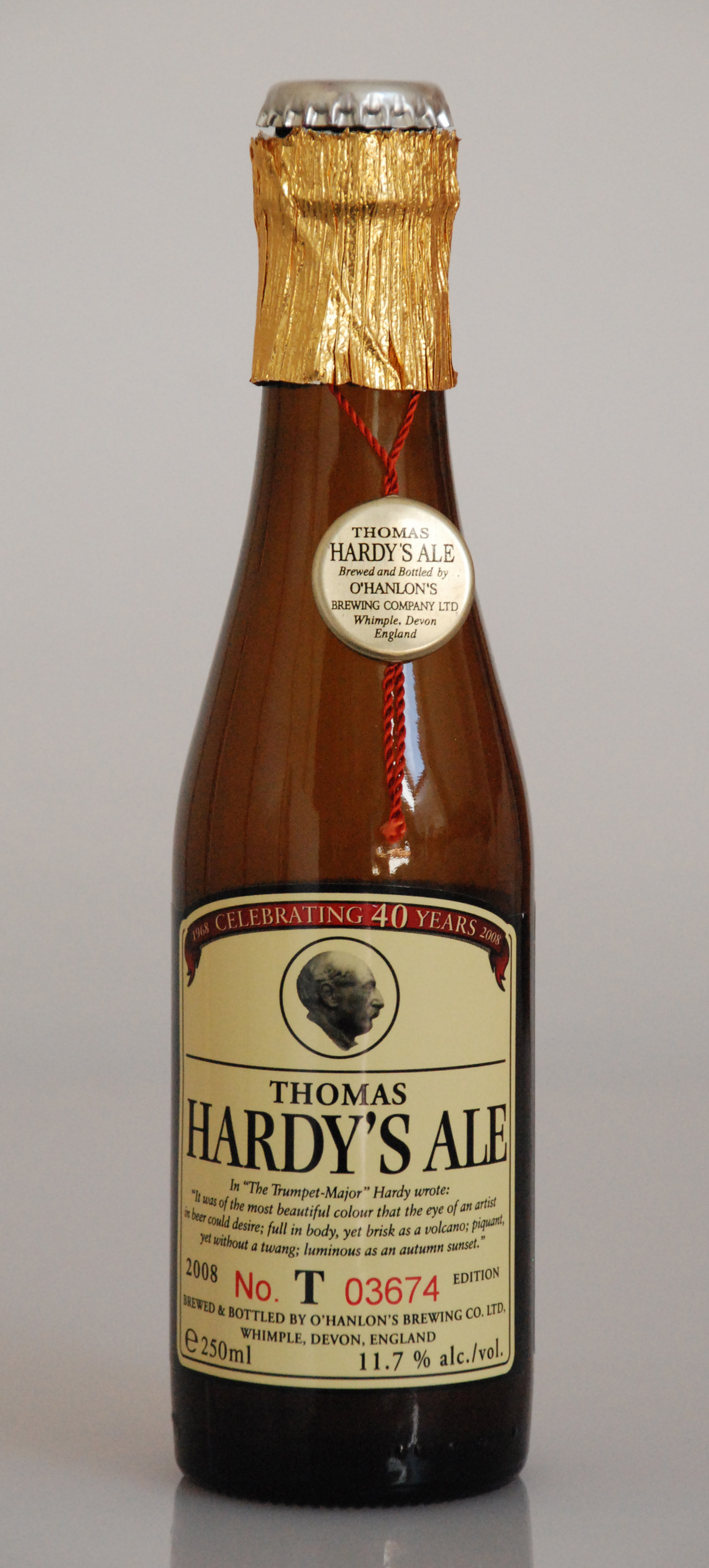 Empty 25cl bottle of Thomas Hardy's Ale.